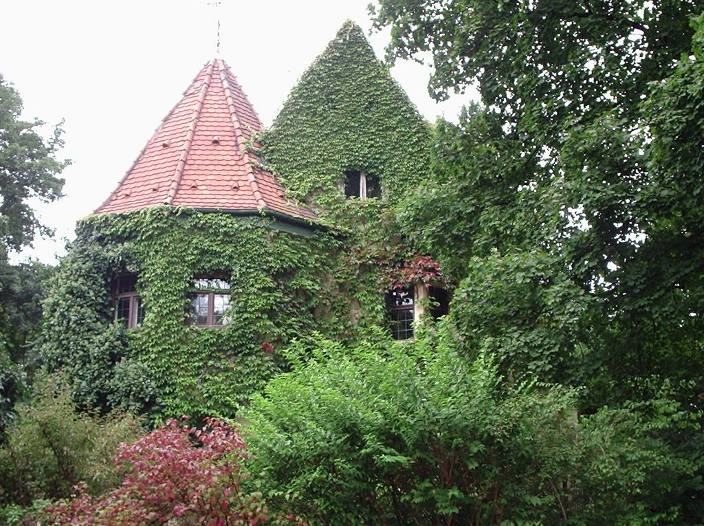 Villa (cultural heritage monument) at Buchauerstraße 20, Solln, Munich, Germany. Built in 1911 by Georg Siglstätter. Former home of the German ethologist Bastian Schmid